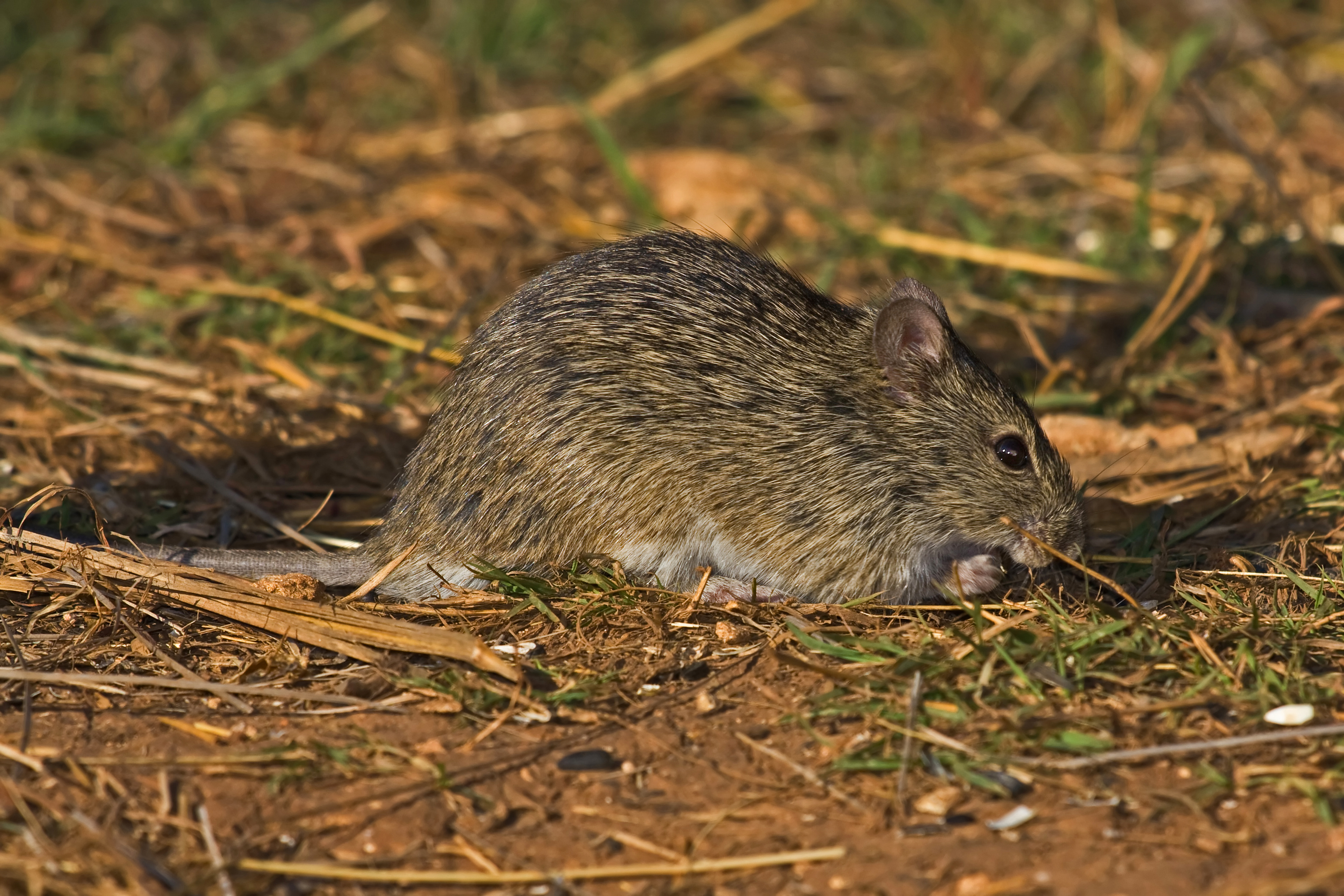 Hispid cotton rat from Texas